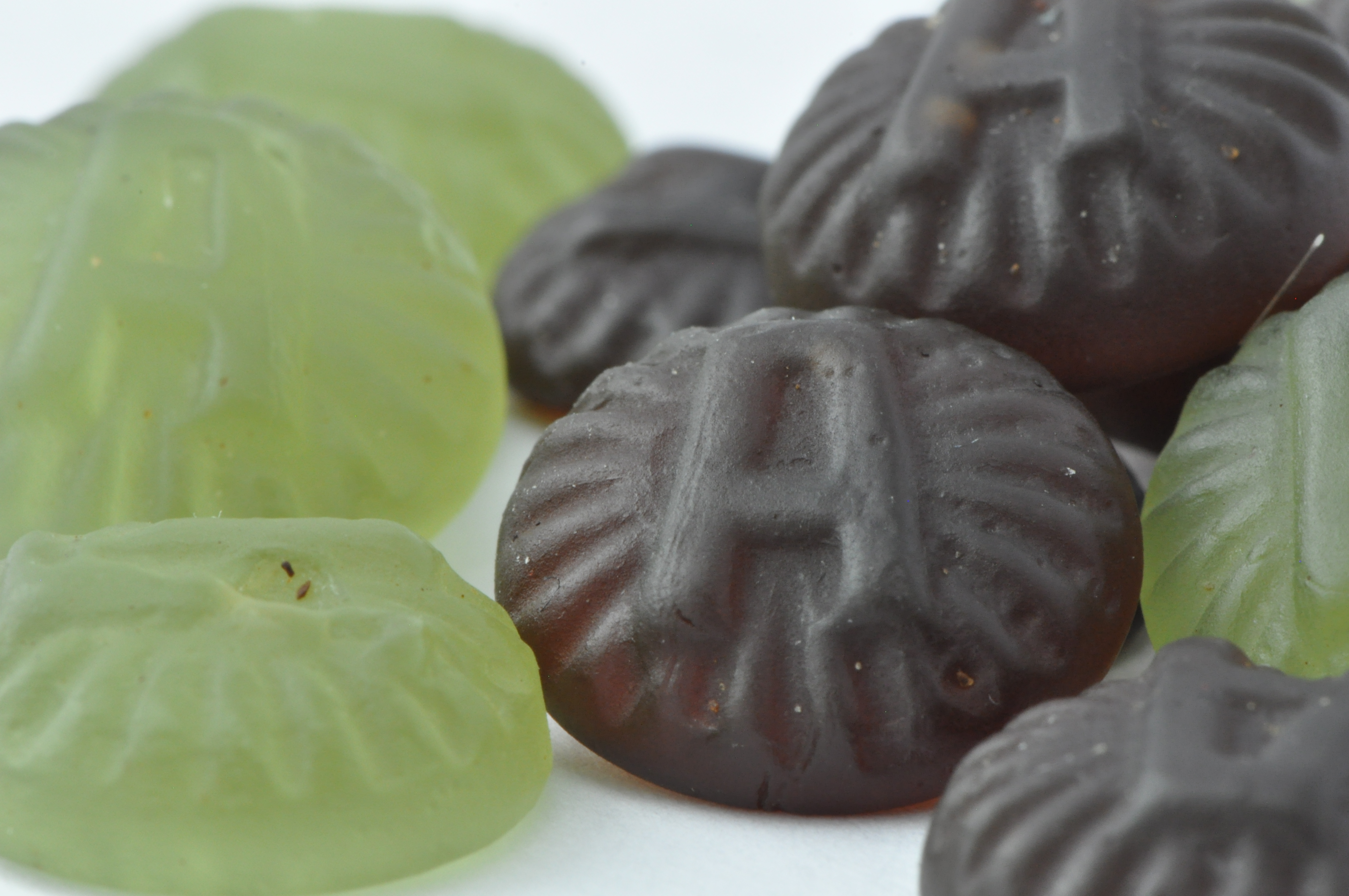 Läkerol in two flavours: Salvi (dark) and Eucalyptus (green).